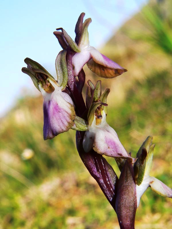 Orchis collina